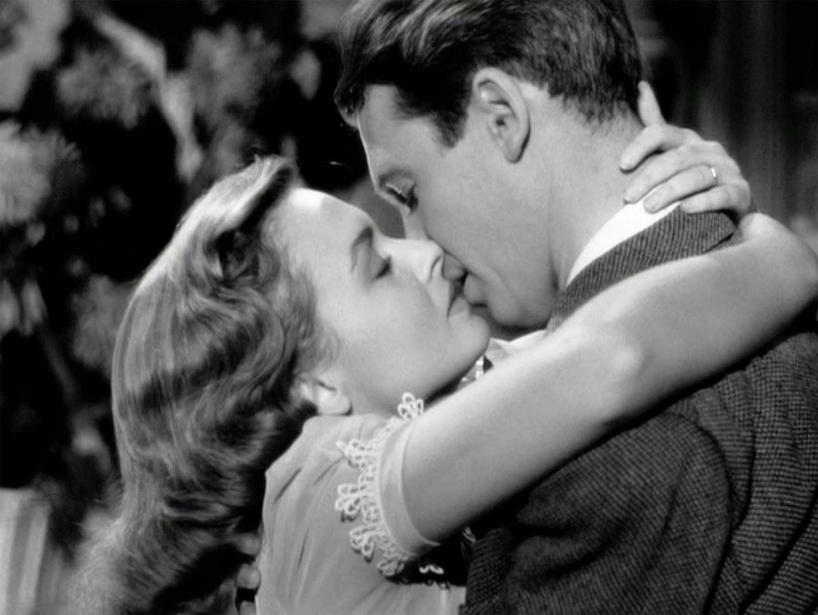 Donna Reed and James Stewart in It's a Wonderful Life